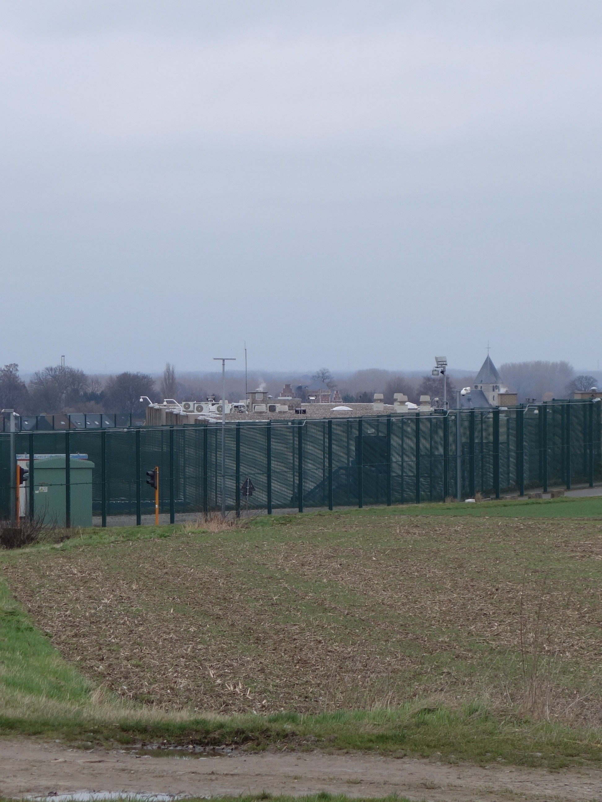 Closed centre 127bis (within the Brussels Airport enclosure)